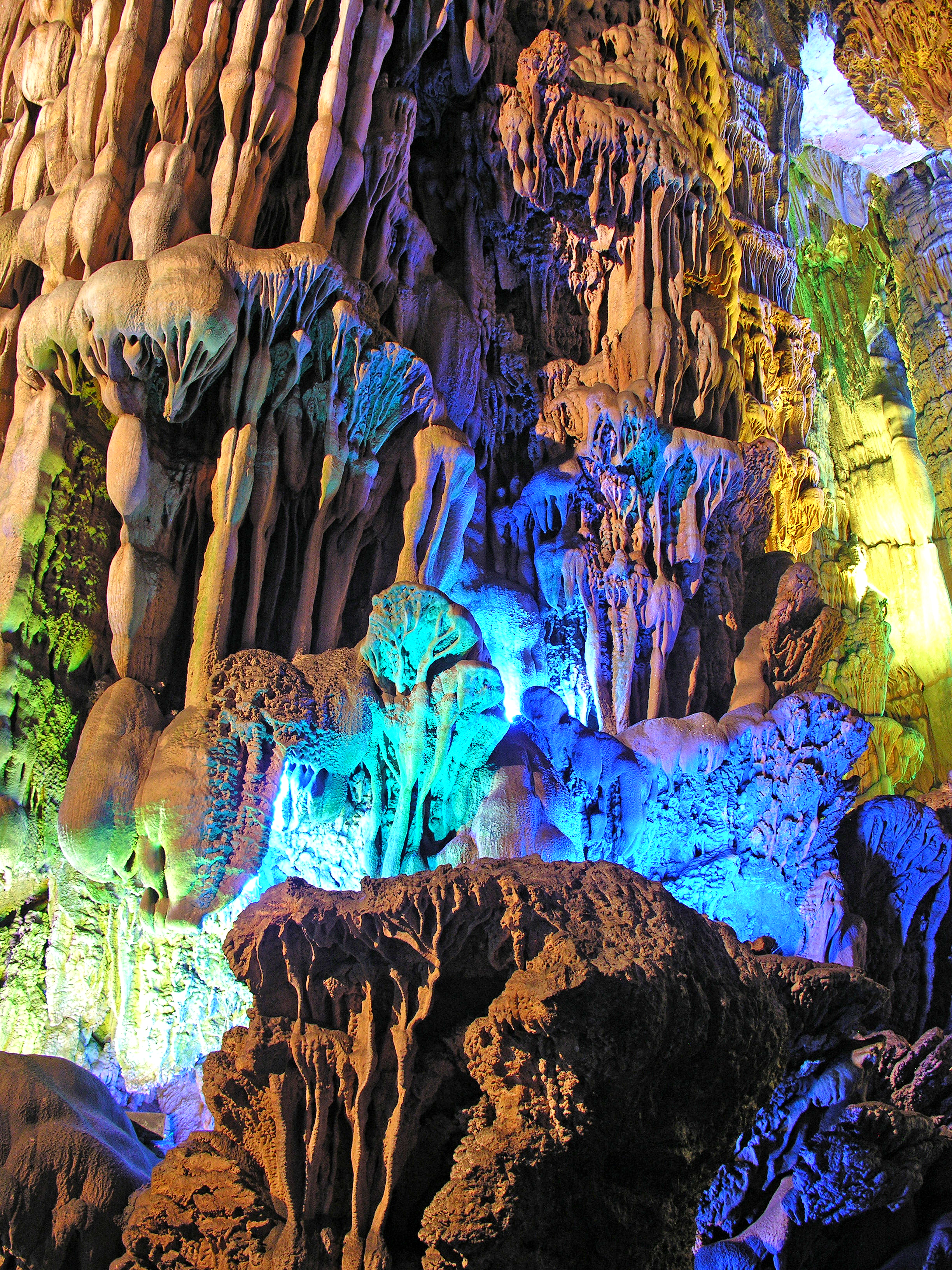 Reed Flute Cave got its name from the verdant reeds growing outside it. Inside this water-eroded cave is a spectacular world of various stalactites, stone pillars and rock formations created by carbonate deposition. Illuminated by colored lighting, the fantastic spectacle is found in many variations along this 240-meter-long cave. Guilin, China